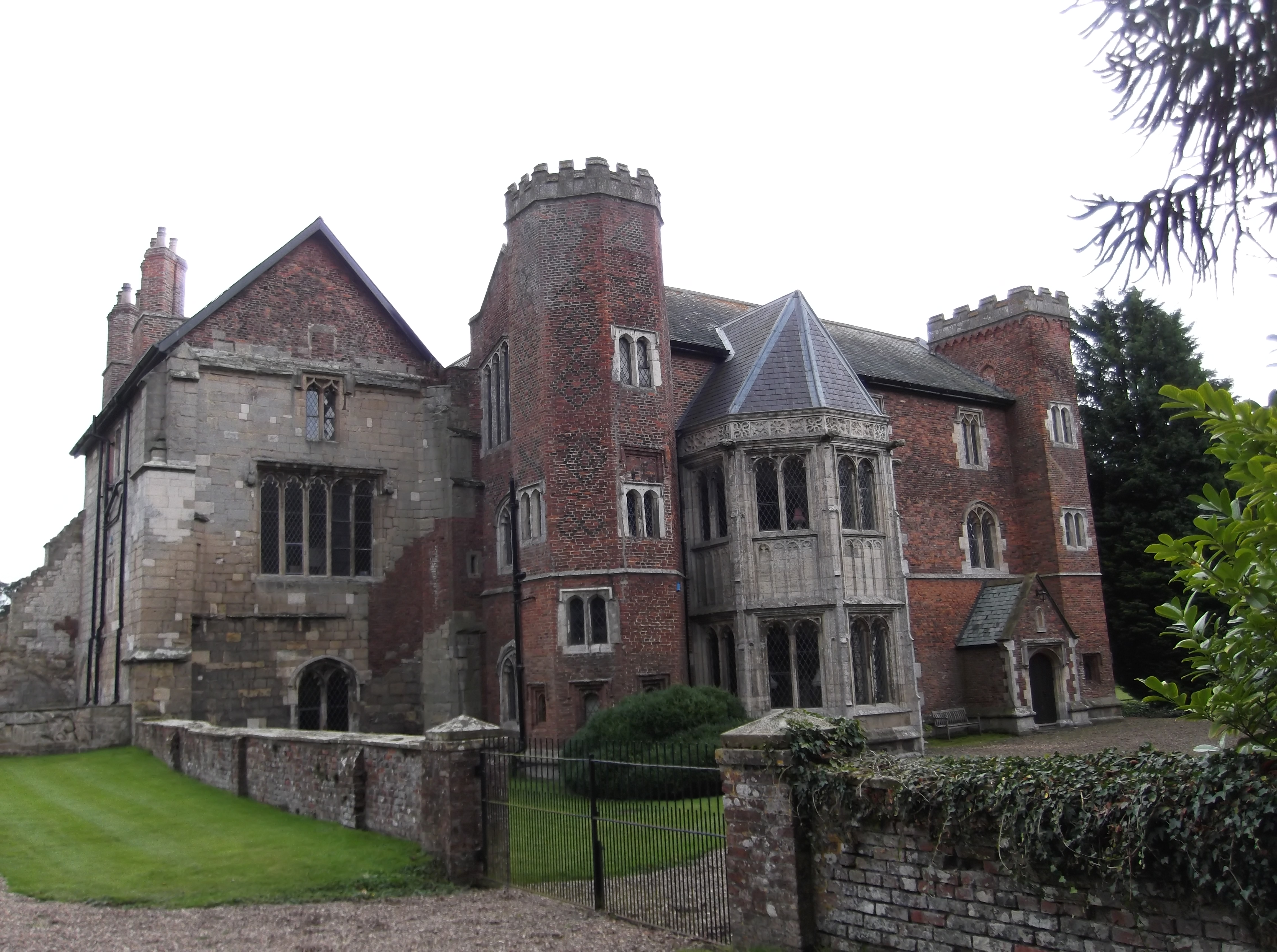 Photograph of Watton Priory, Watton, East Riding of Yorkshire, England.